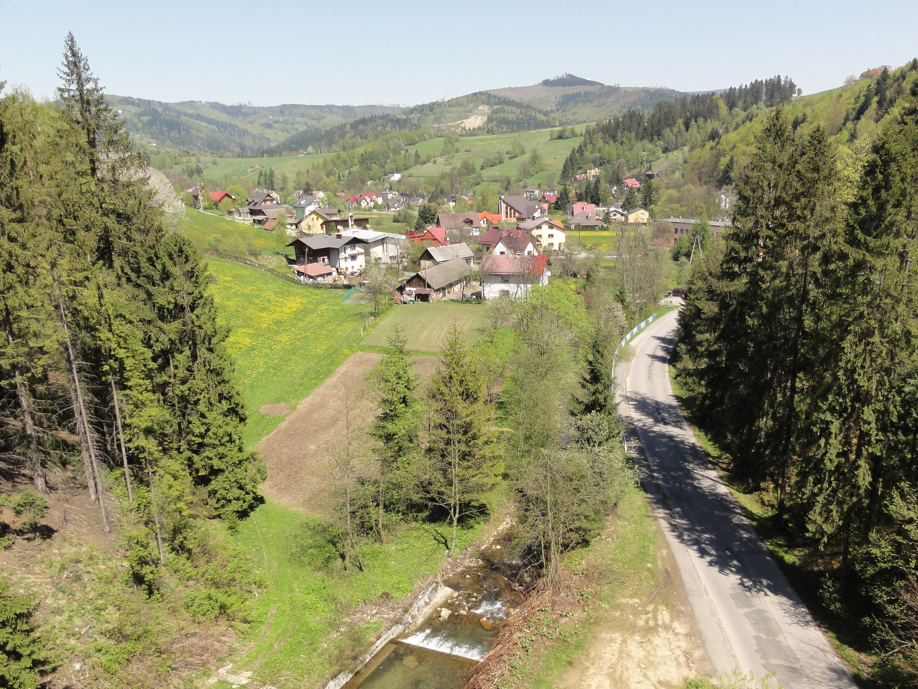 View from railway bridge in Wisła-Głębce